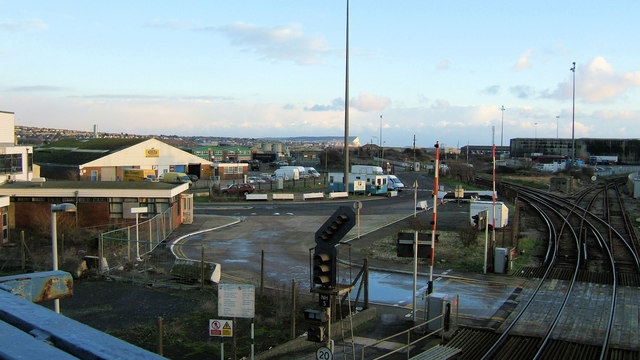 Newhaven Harbour A very busy view taken from the footbridge at Newhaven Harbour. Seaford head can be seen on the horizon. The former British Transport Police office is on the left with accommodation at the rear for any "aliens" who had been refused entry to the UK. Security is now provided from the small caravan in the centre of the view under the tall lamp post. The railway runs to Bishopstone and Seaford and the spur on the right serves Newhaven Marine Station.